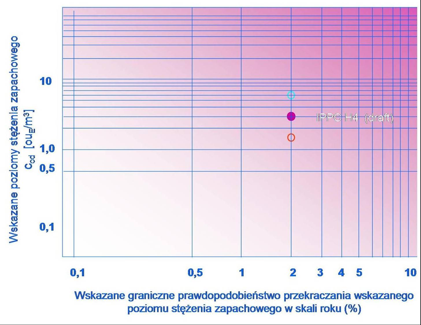 Odour Air Standards (IPPC H4_B)